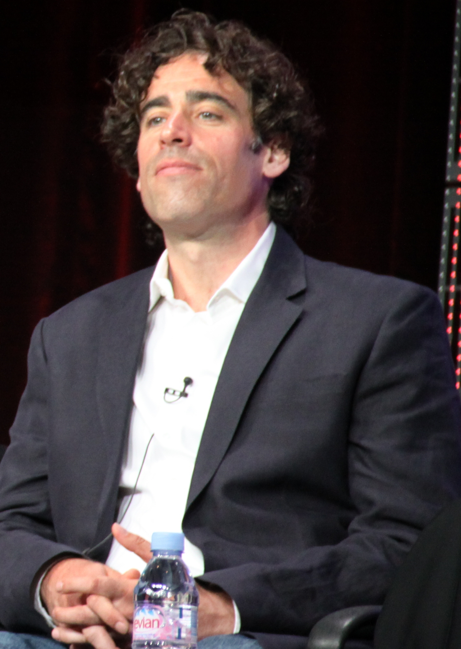 Cropped version of Episodes cast TCA 2010.jpg